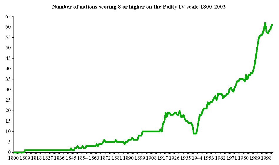 Data source: The Polity IV project. The y axis is the number of nations scoring 8 or higher on the combined Polity score. The years are all those available in the data, 1800-2003. Note that the Polity IV project only scores nations with greater than 500,000 total population.